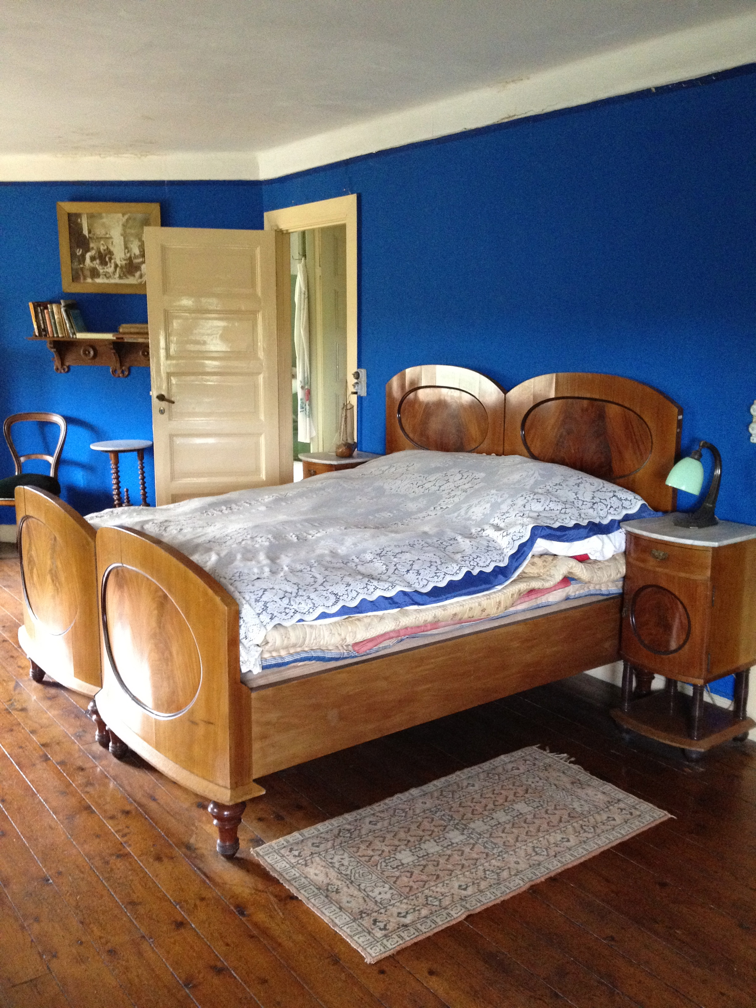 Danish